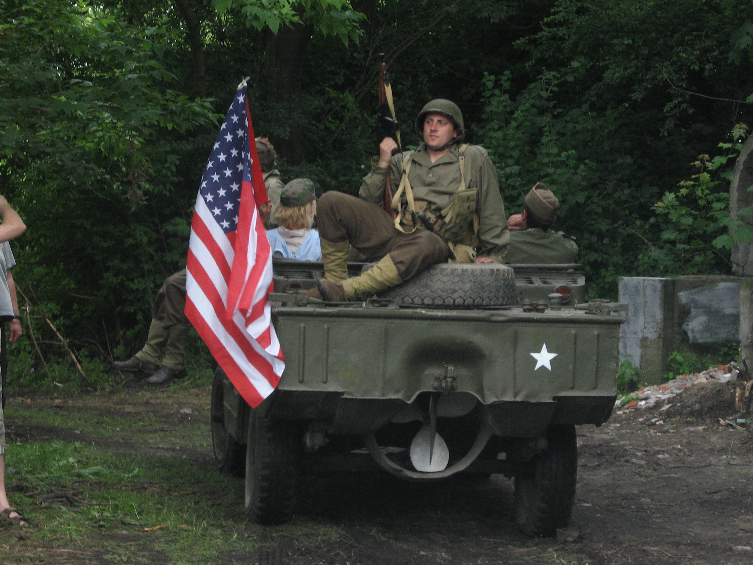 GAZ-46 visually modified to resemble a Ford GPA during the VII Aircraft Picnic in Kraków.